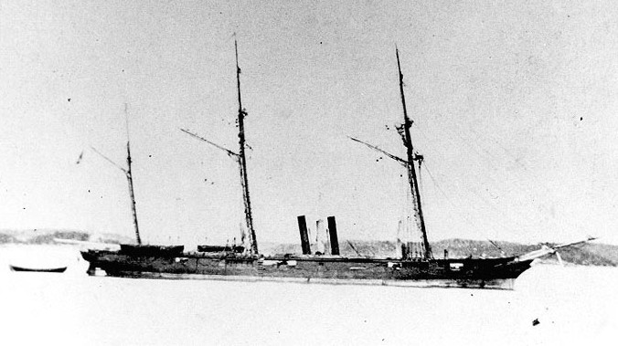 Confederate cruiser CSS Florida From the public domain U.S. Naval Historical Center.